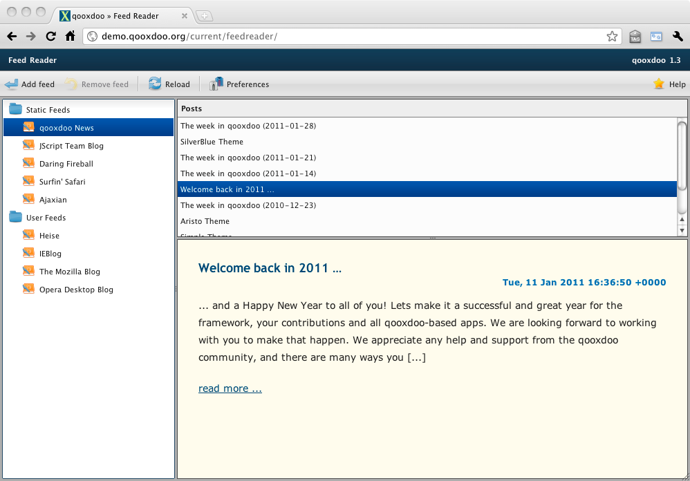 Screenshot of a qooxdoo 1.3 sample application